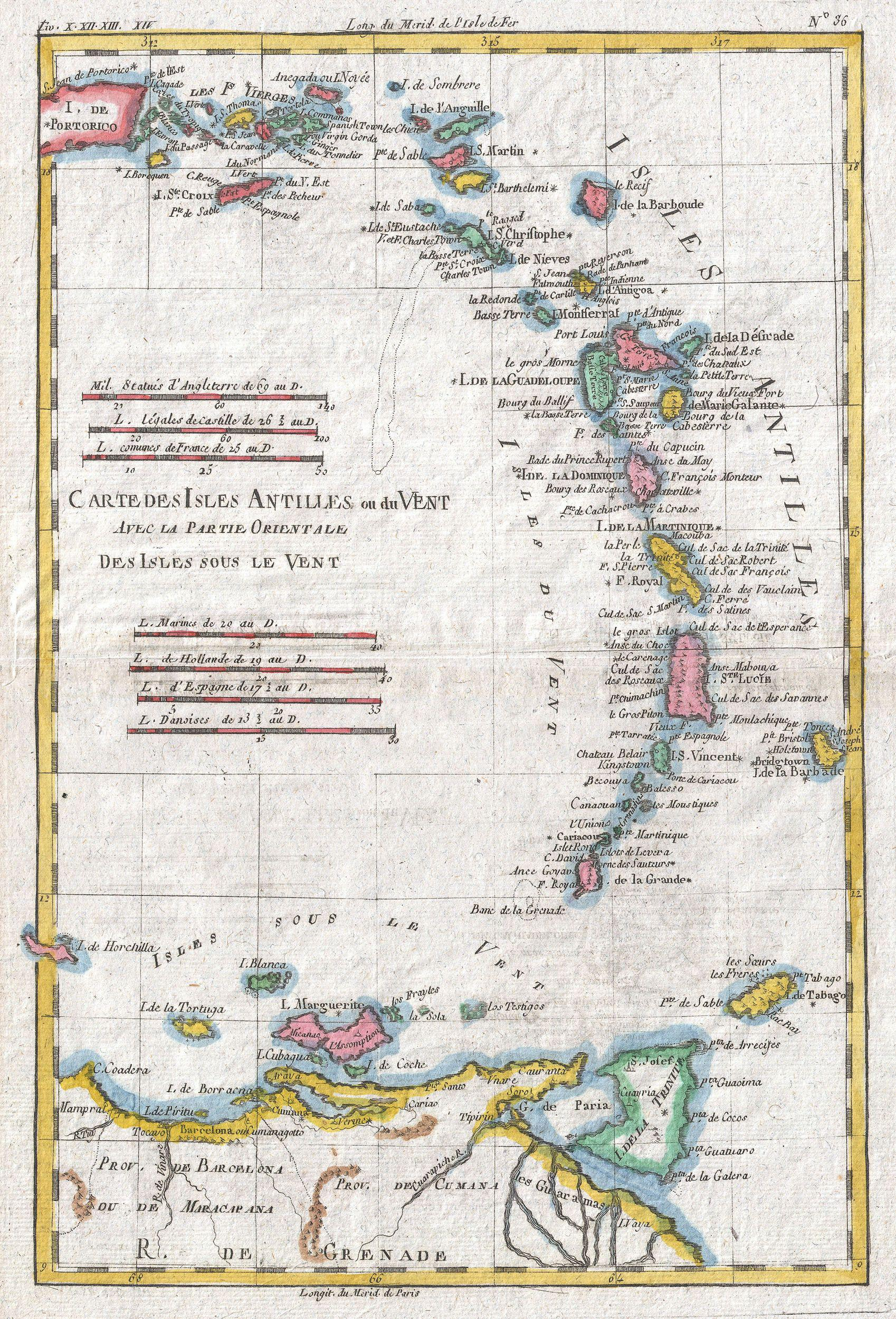 A fine example of Rigobert Bonne and Guillaume Raynal’s 1780 map of the Lesser Antilles, West Indies. Covers the entire chain from Porto Rico to Trinidad, along with parts of the Spanish Main. Includes Porto Rico, St. Croix, Barbados, St. Lucia, St. martin, Guadeloupe, St. Christopher, the Virgin Islands, Antigua, Dominica, St Vincent, Tobago, Granada, Martinique, Isla Margarita, and many other islands.. Highly detailed, showing towns, rivers, some topographical features, some undersea features, and political boundaries. Drawn by R. Bonne for G. Raynal’s Atlas de Toutes les Parties Connues du Globe Terrestre, Dressé pour l'Histoire Philosophique et Politique des Établissemens et du Commerce des Européens dans les Deux Indes .